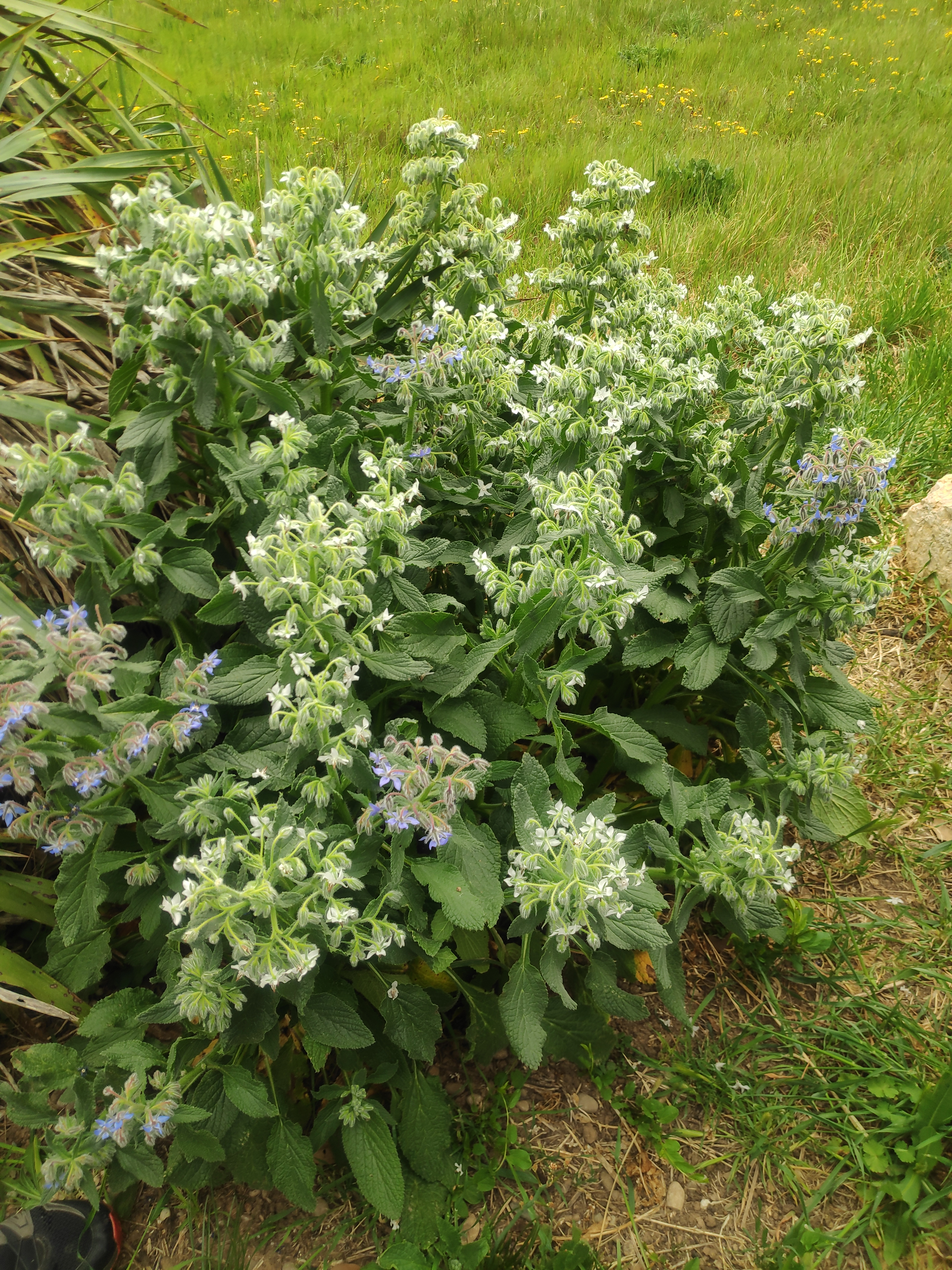 Common borage